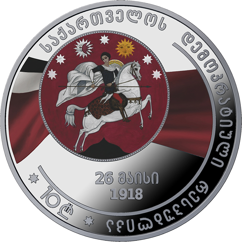 100th Anniversary of the First Democratic Republic of Georgia, Georgia coin, 10 Lari, 2018, obverse